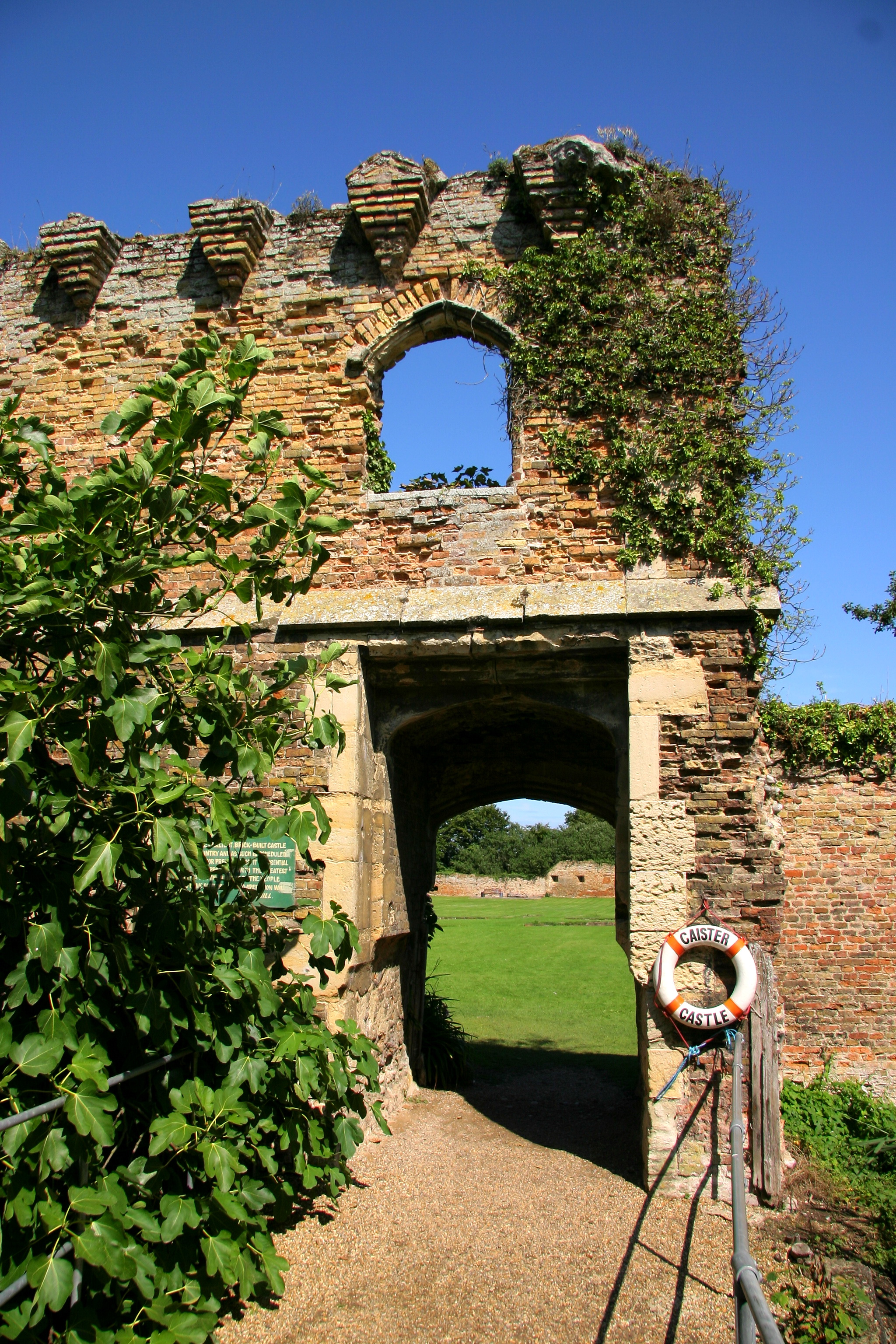 Caister Castle. Focal length 17mm, Aperture f/9.0, Shutter Speed 1/250sec, ISO 100